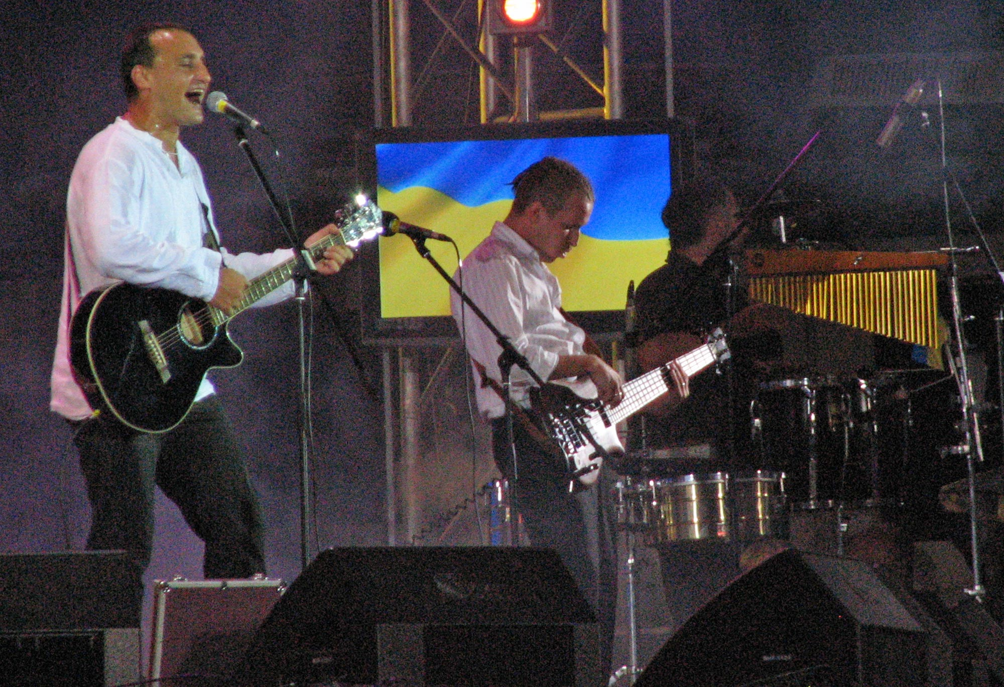 The Ukrainian folk-rock band Mandry live at Maidan in Kyiv, Ukraine.